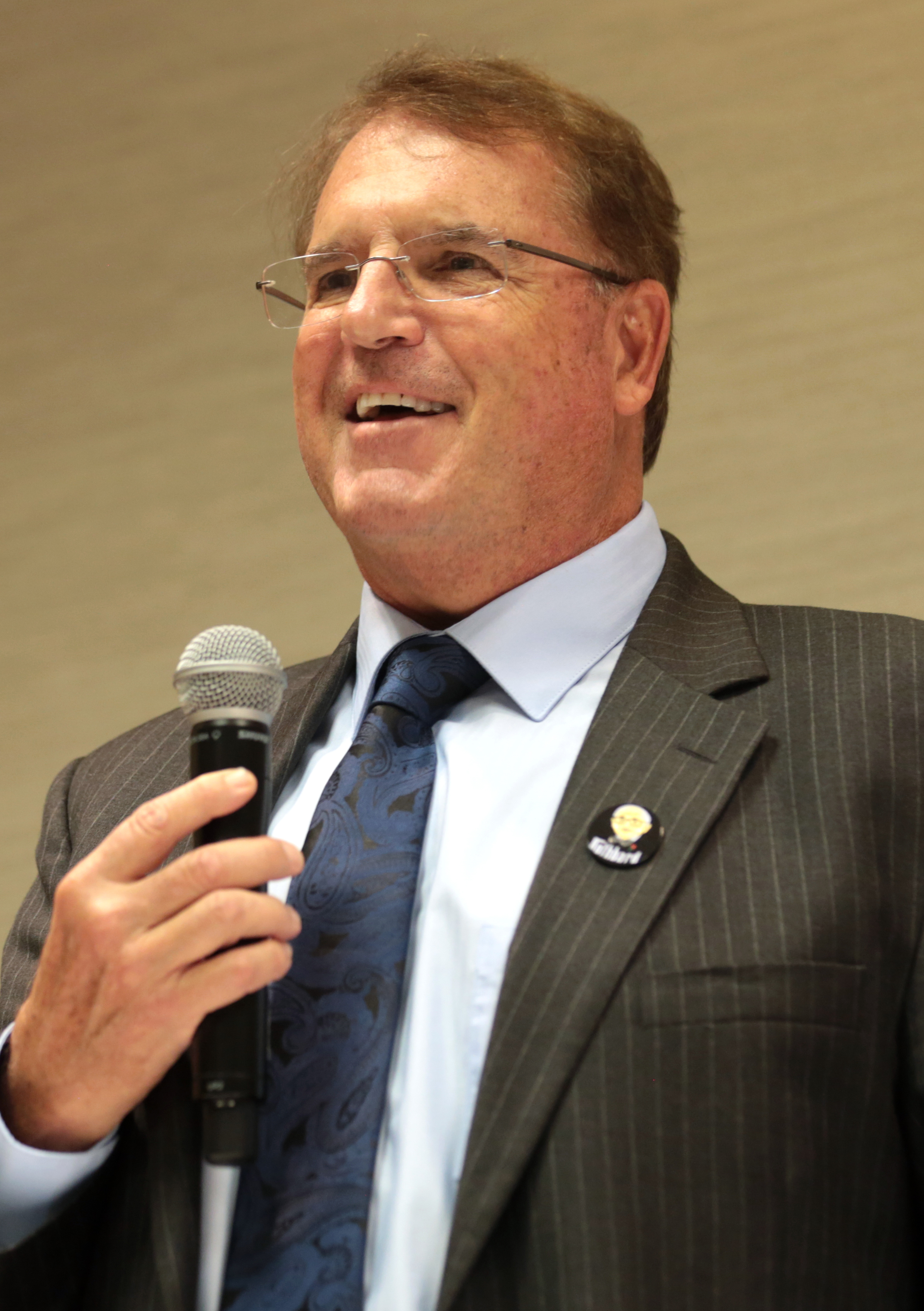 Thomas DiLorenzo speaking at an event in New York City, New York.